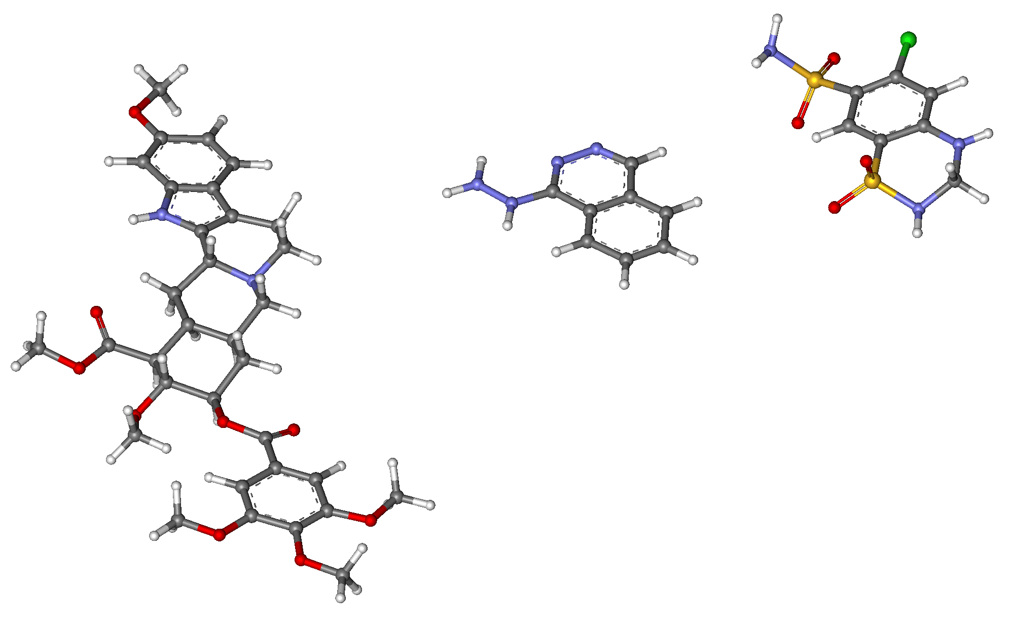 Ball-and-stick model of adelfan-esidrex molecule. The structure is taken from ChemSpider. ID 167866